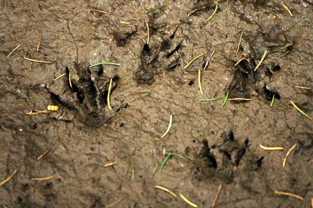 Erinaceus europaeus tracks on mud, from Commanster, Belgian High Ardennes (50°15'20N,5°59'58E)